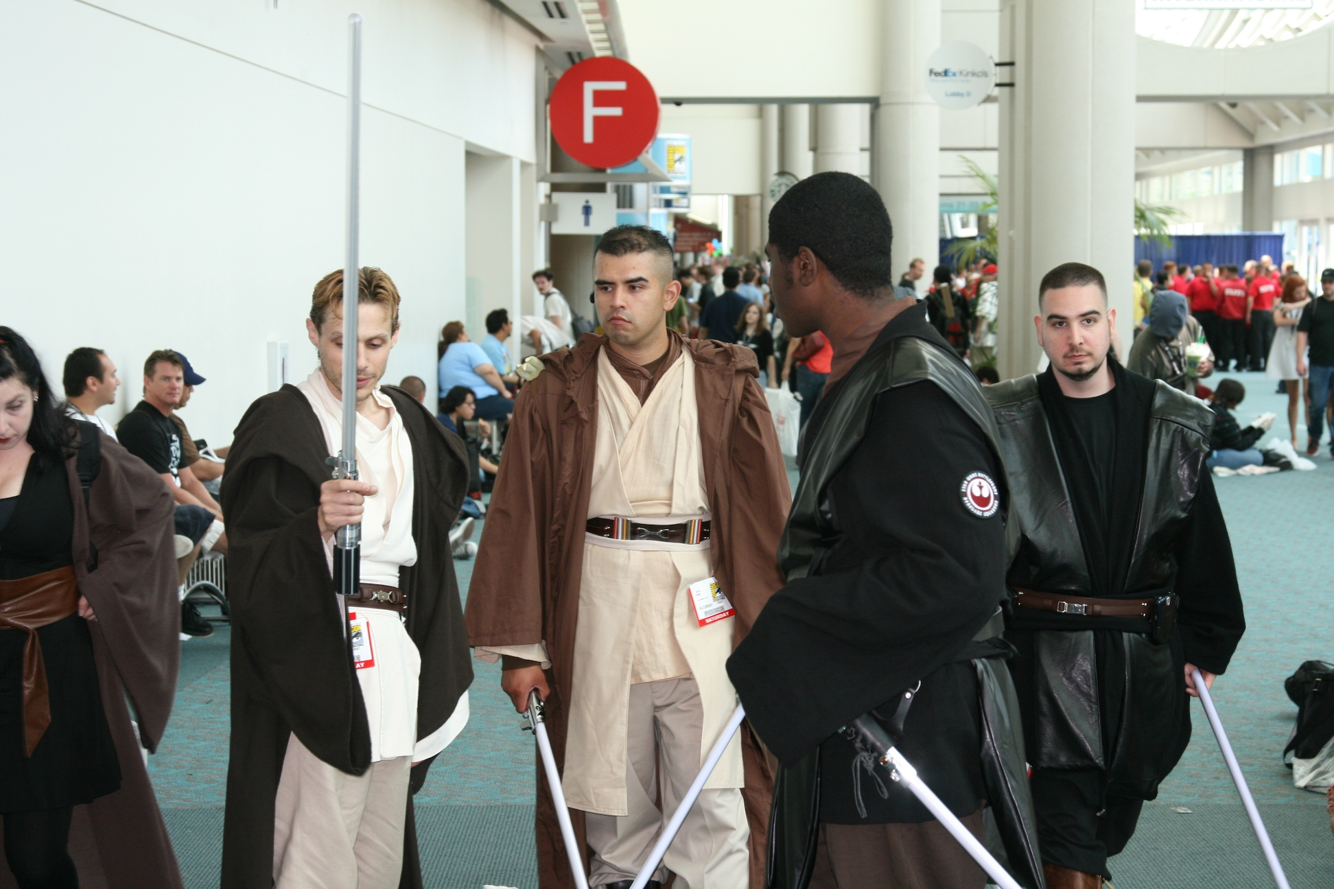 There were several metric tons of jedi there. I mean, I like jedi as much as the next guy, maybe more, but about halfway through I was really hoping Vader was coming to thin the herd.